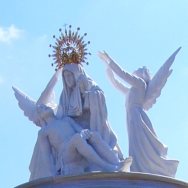 Our Lady of Sorrows (detail), Ayamonte, Andalucia, Spain